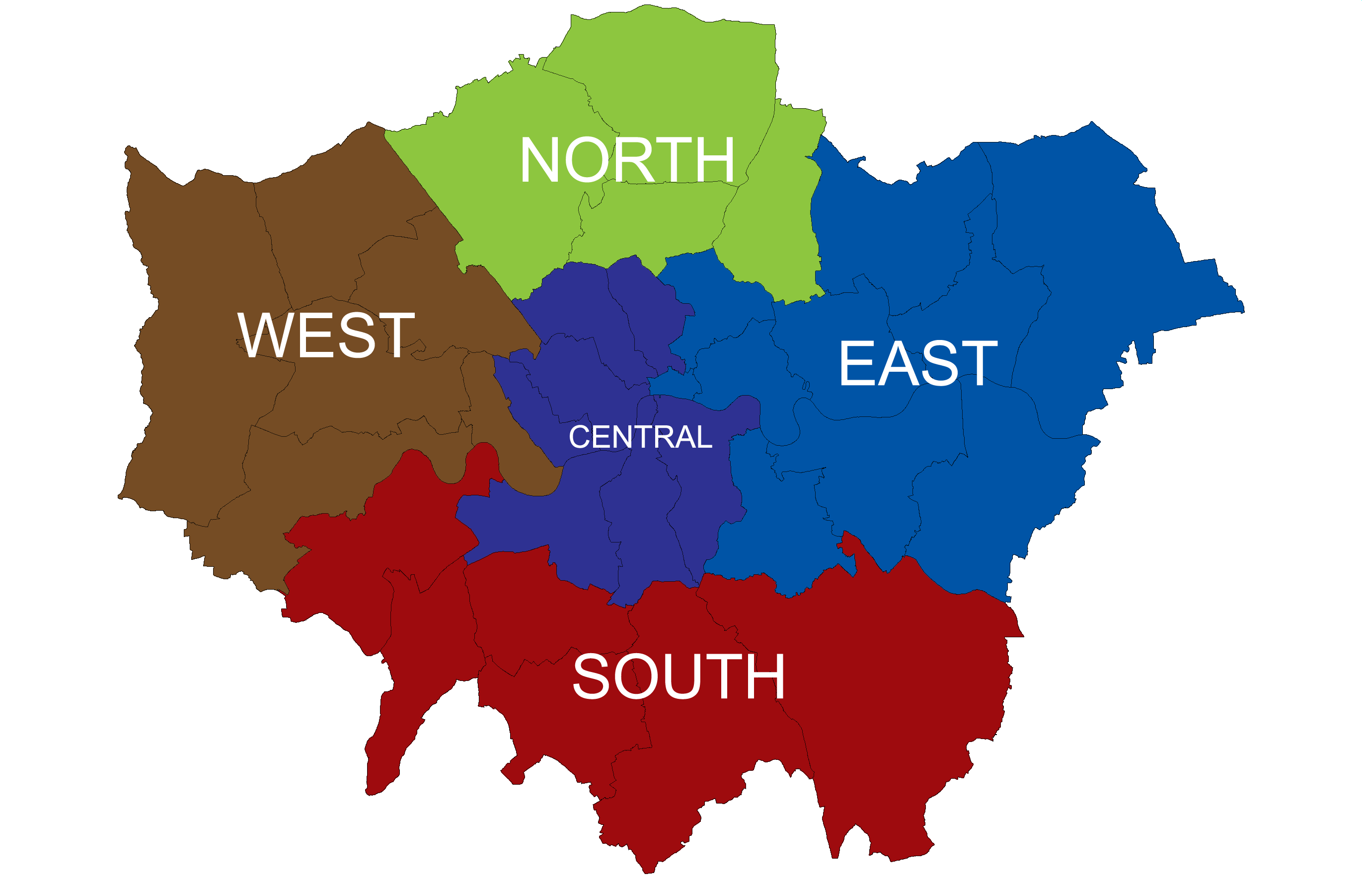 Sub regions of Greater London established in 2004